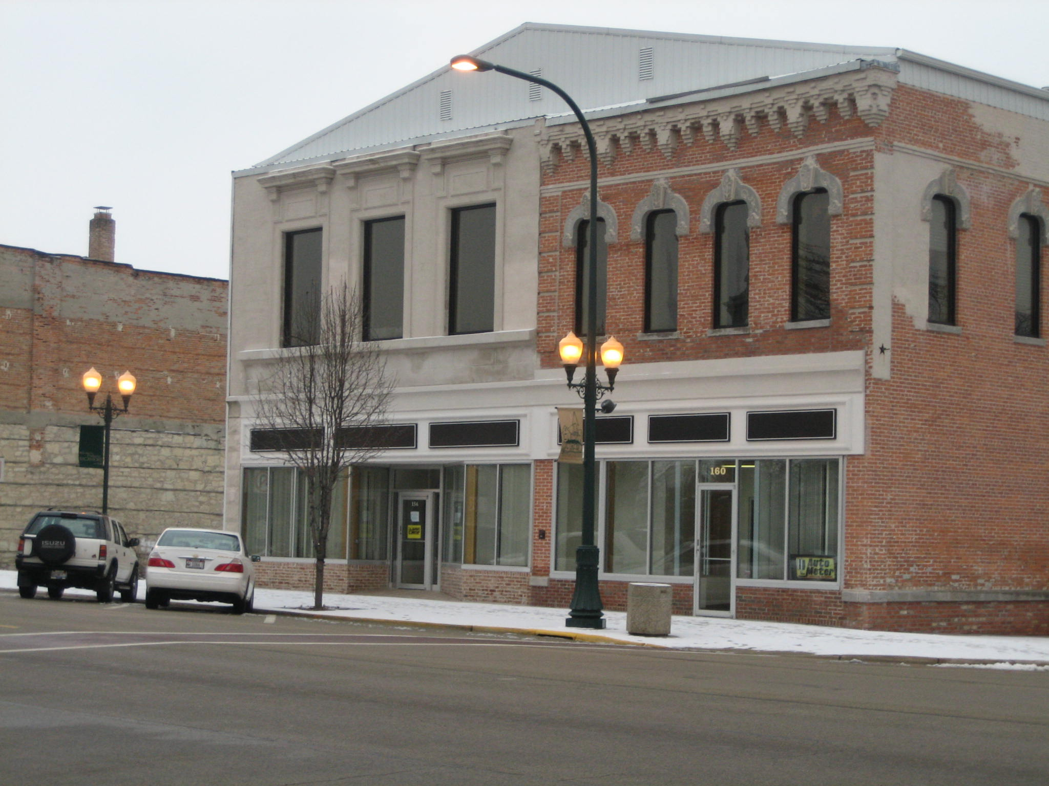 156 W. State Street and 160 W. State Street, the latter being known as the Townsend Building. Sycamore, Illinois, National Register of Historic Places as part of the Sycamore Historic District.